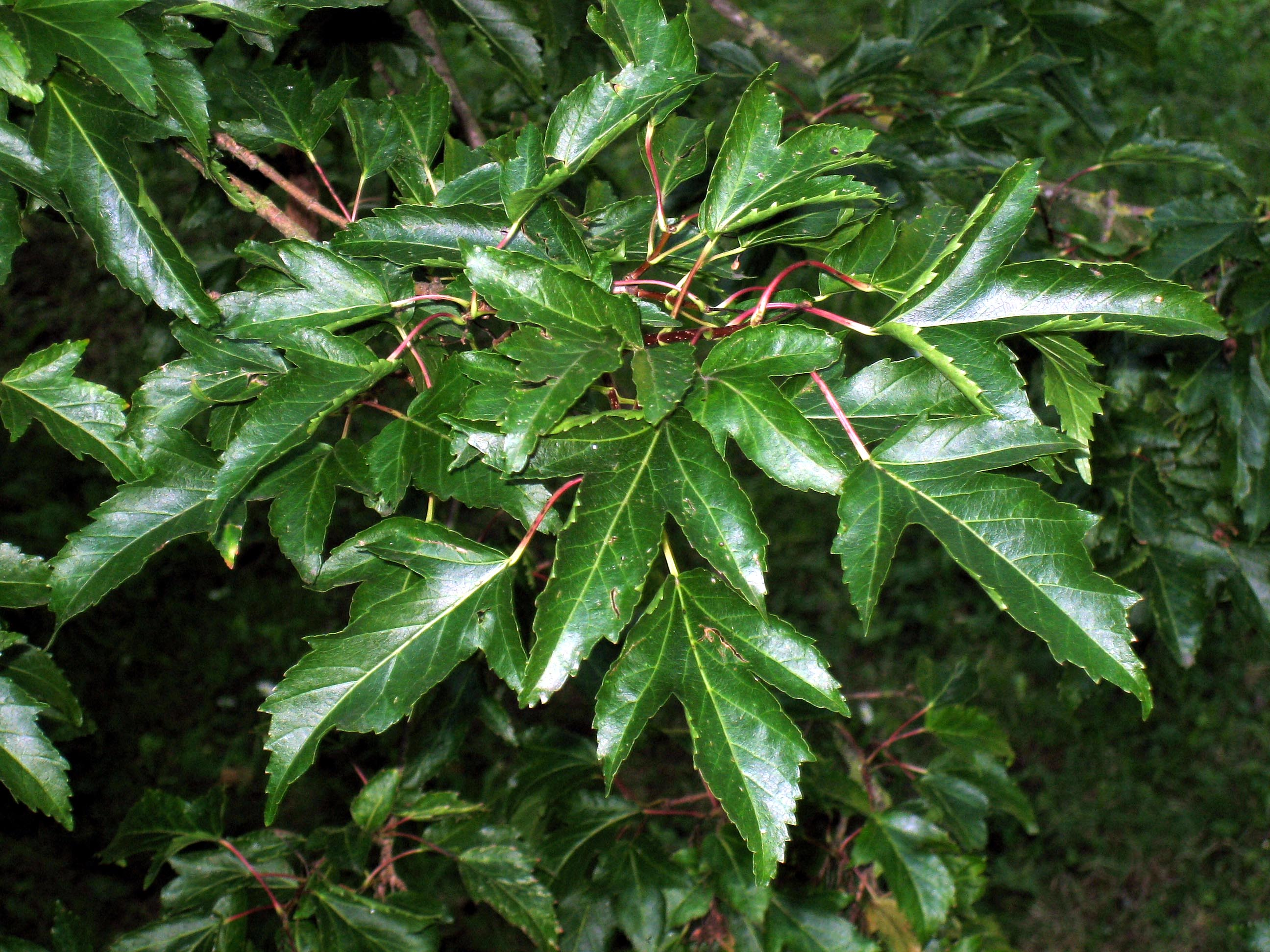 Amur Maple Acer ginnala foliage, cultivated, Armstrong Park, Newcastle, Northumberland, UK